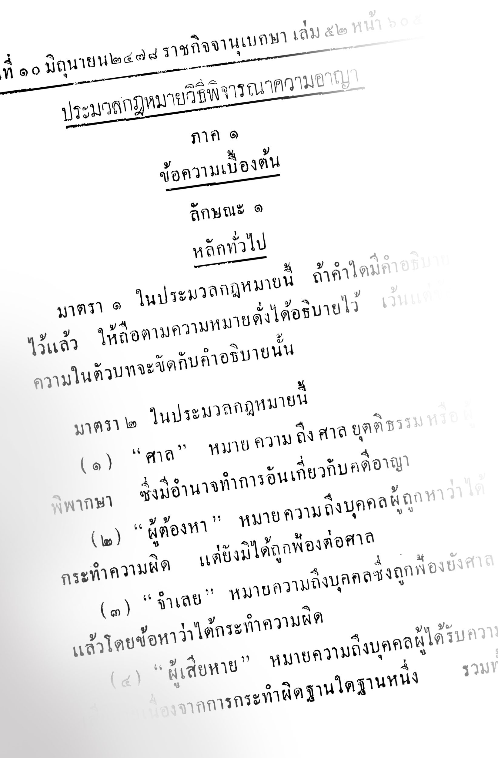 What: The Criminal Procedure Code of Thailand, as promulgated by the Act Promulgating the Criminal Procedure Code, BE 2477 (1934). Where: The Government Gazette of Thailand: volume 52/page 605/June 10, 1935.